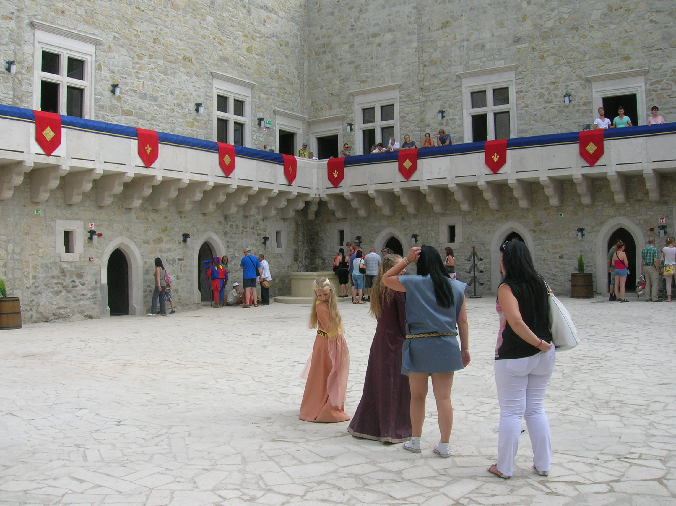 Inner courtyard of the Castle of Diósgyőr on the day it was opened to the public